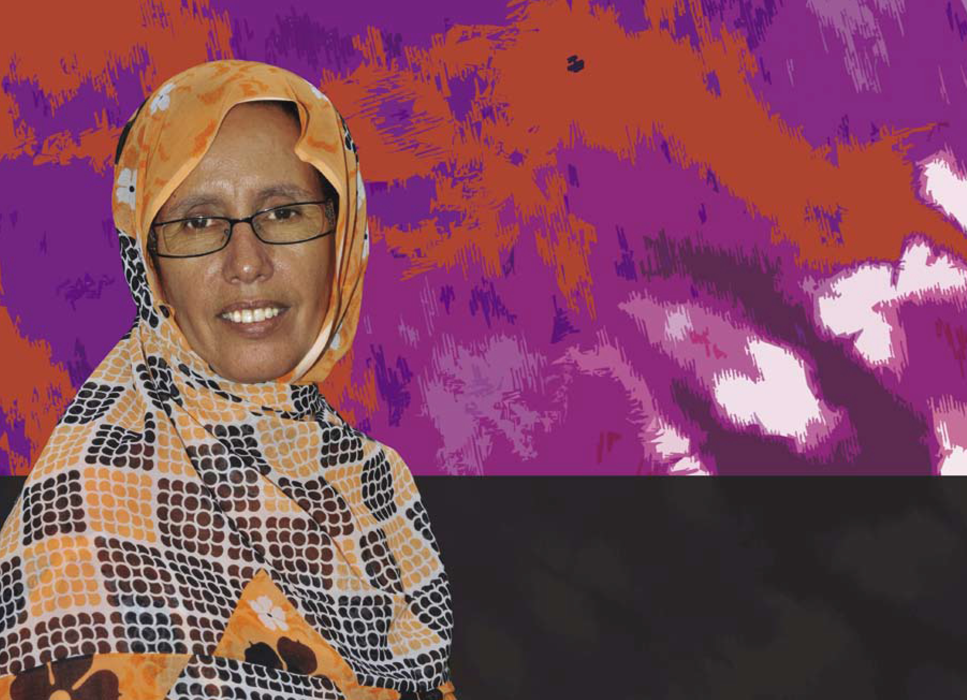 Voice, Power and Soul - Portraits of African Feminists